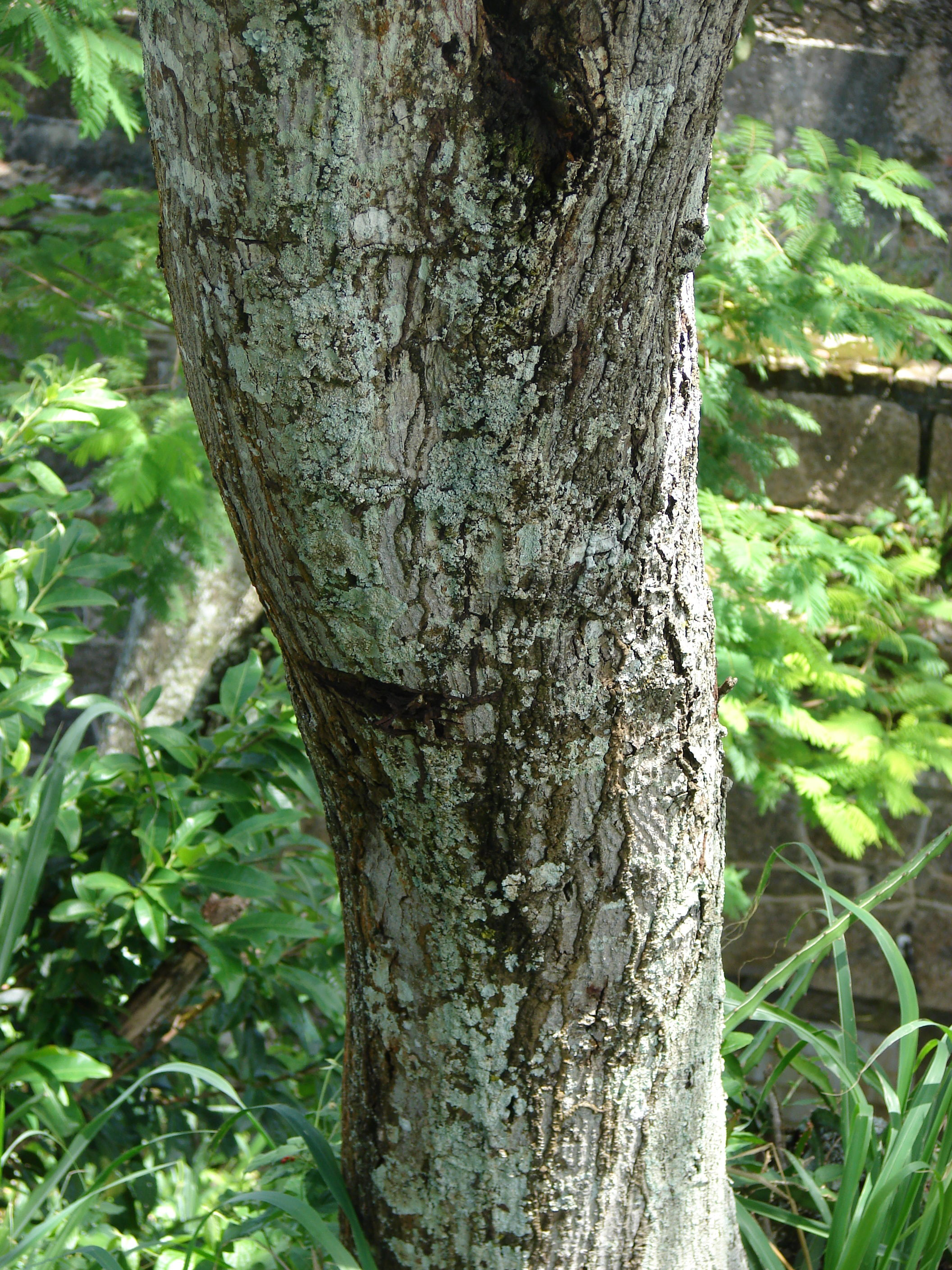 Anadenanthera colubrina trunk. Picture taken at Niterói, Rio de Janeiro, Brazil